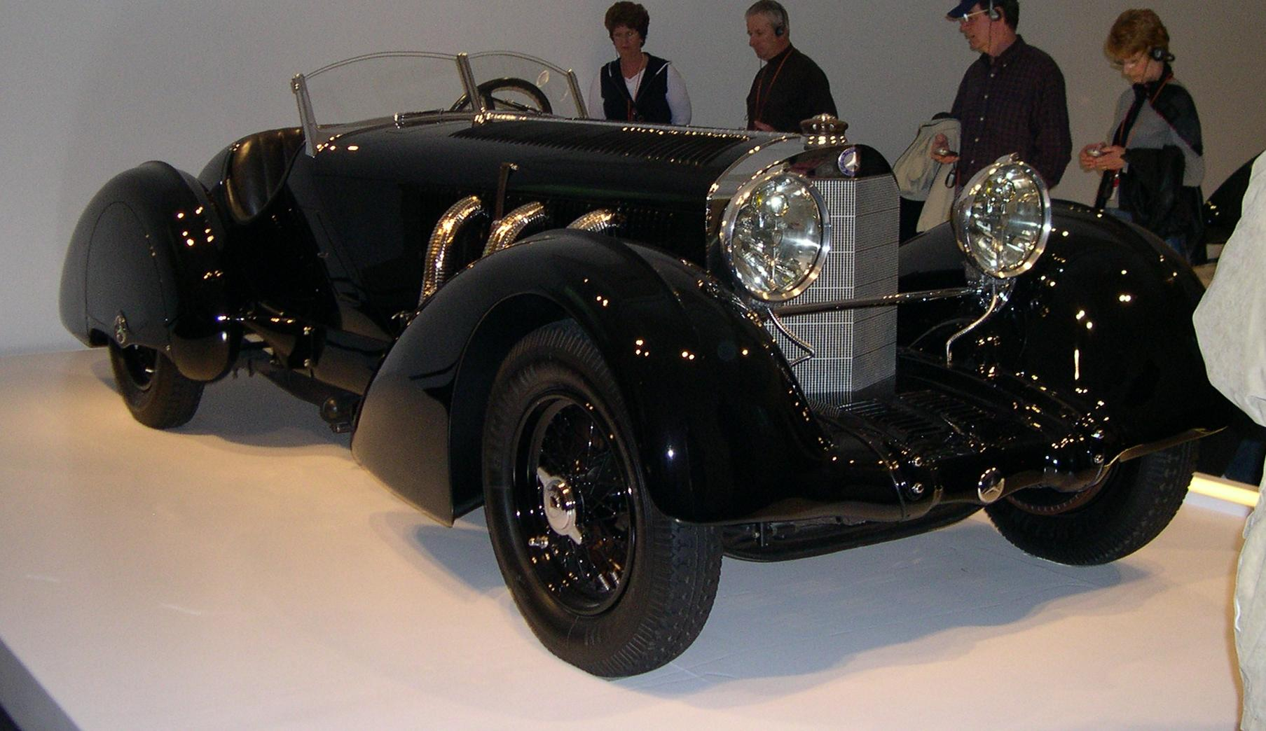 1930 Mercedes-Benz SSK "Count Trossi" From the Ralph Lauren collection on display at the Boston Museum of Fine Arts. Photo taken in 2005.